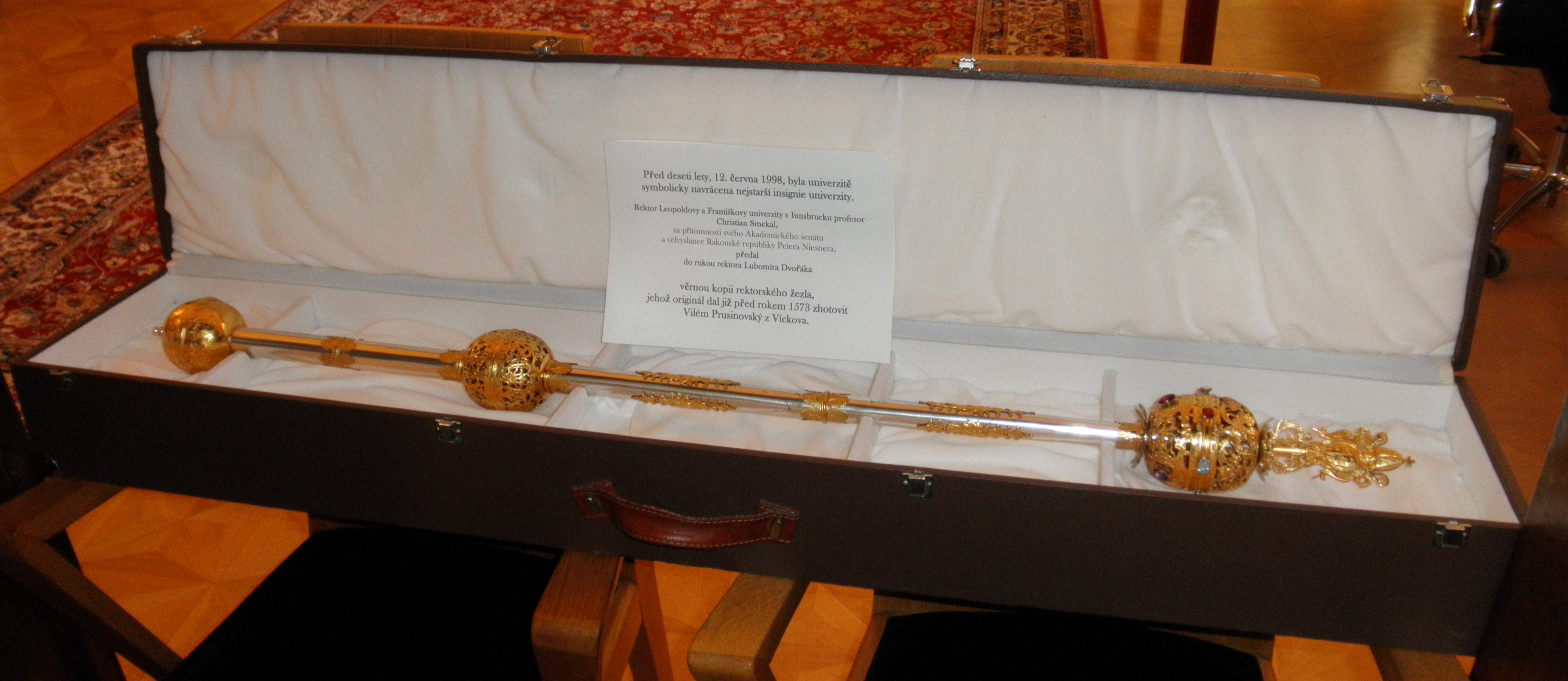 Academical sceptre of rector of Palacký University in Olomouc. It is a facsimile donated to Palacký University by Innsbruck University in 1998.